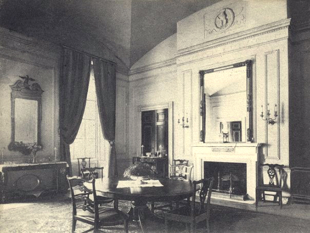 1907 postcard image of the Family Dining Room at the White House as deisgned by Charles Follen McKim. Source: Collection of Jim Hood.